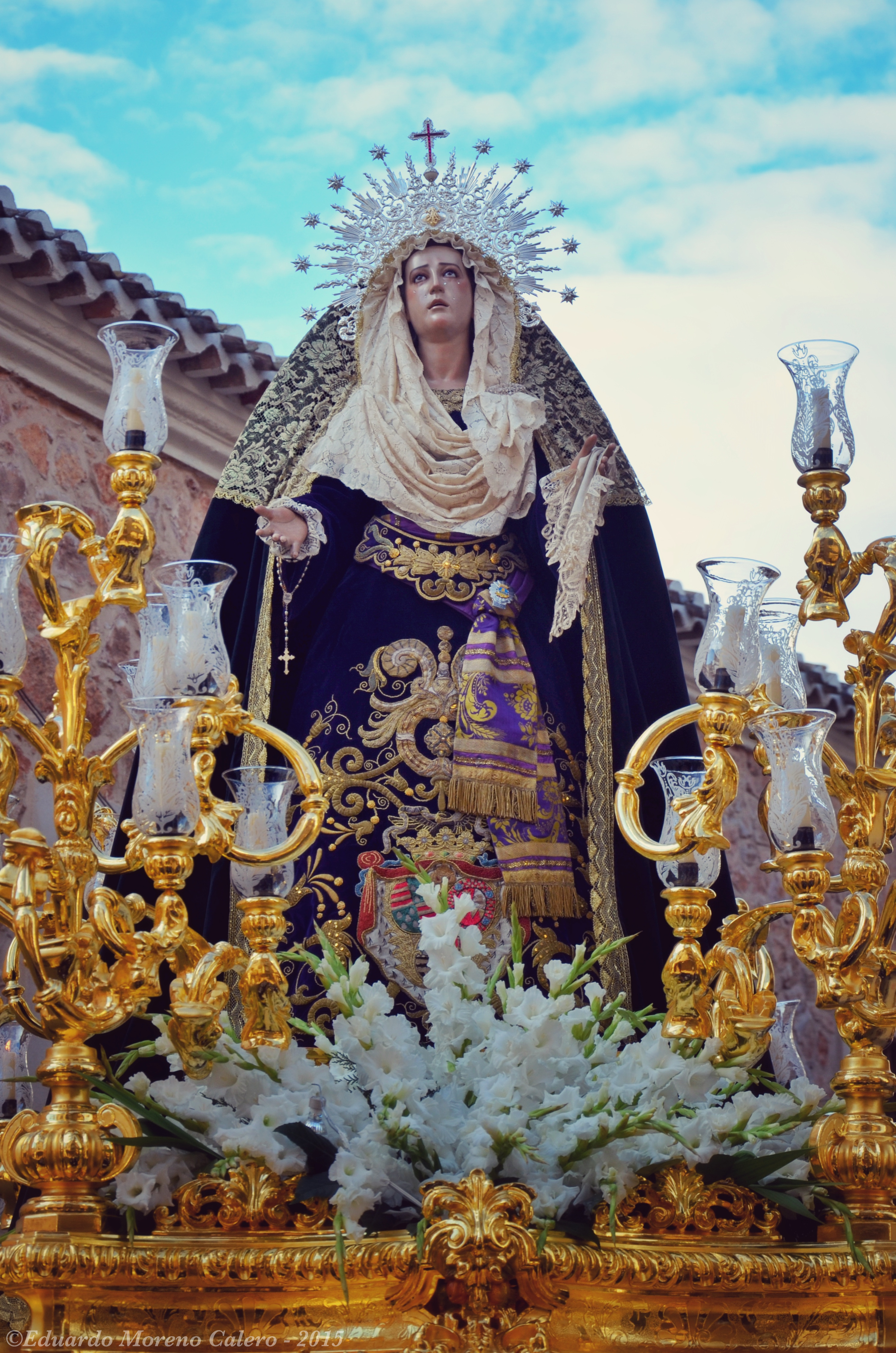 Mary of Solitude of Villarrobledo.